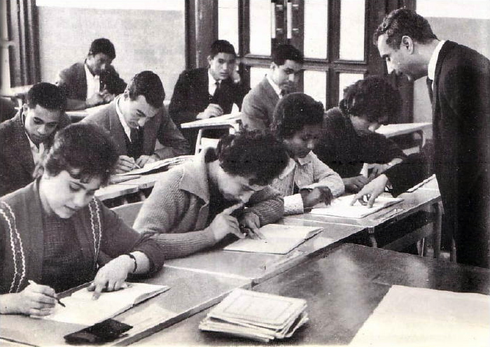 A class in Libyan University in Tripoli, Libya.